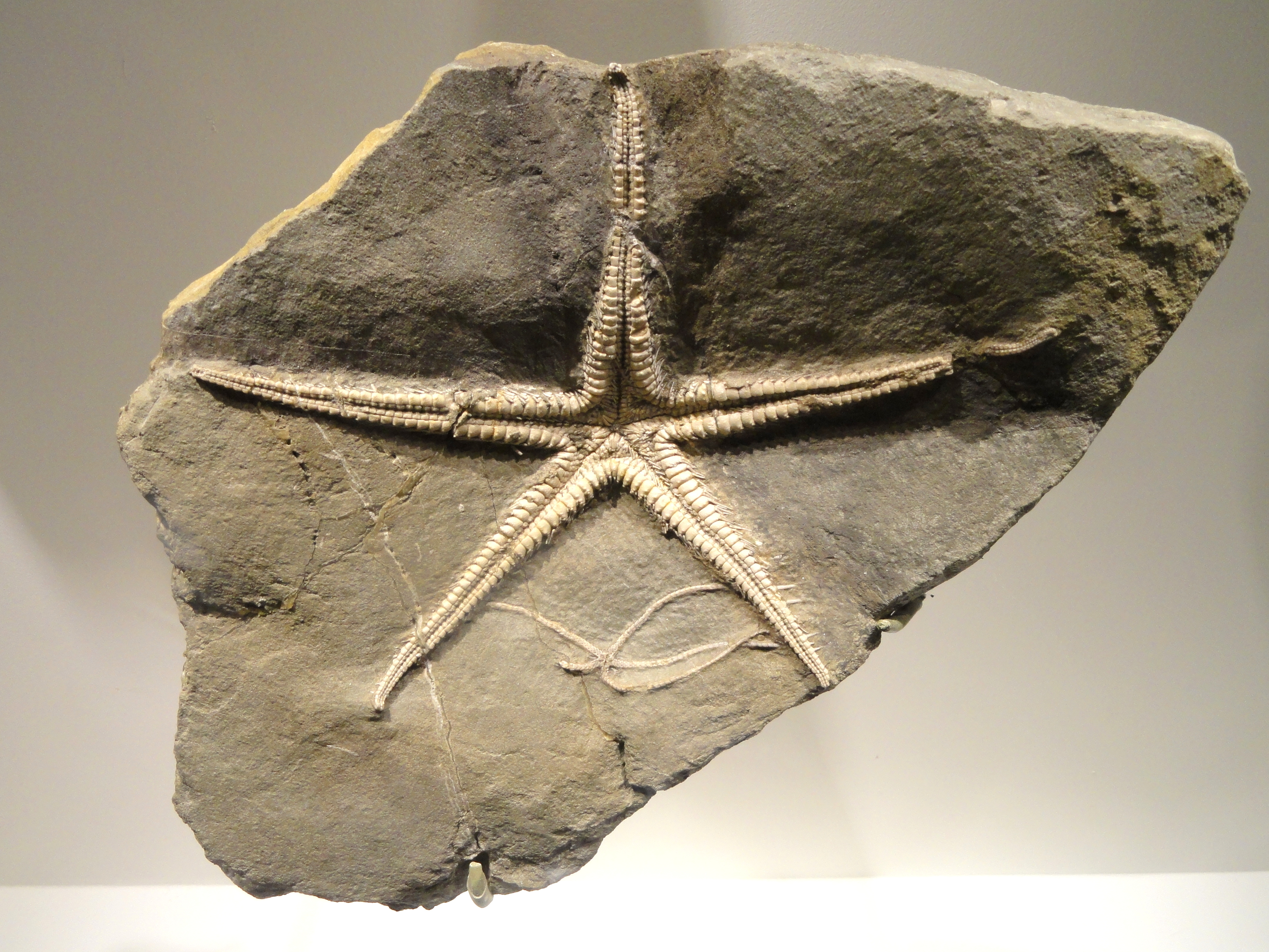 Exhibit in the Houston Museum of Natural Science, Houston, Texas, USA.